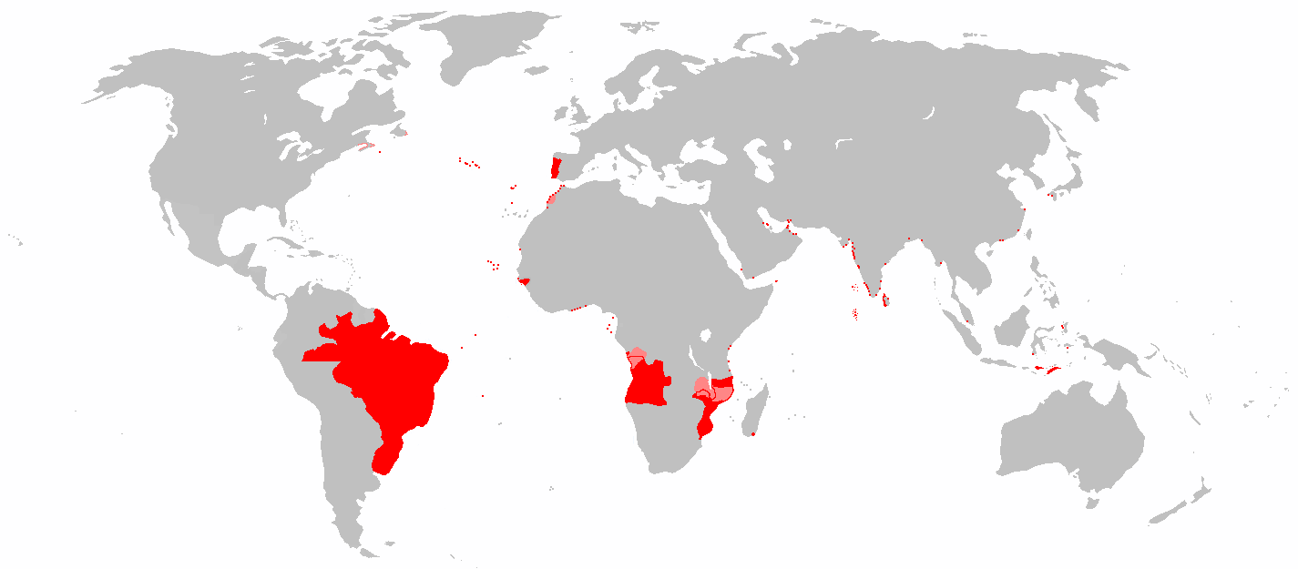 All areas of the world that were ever part of the Portuguese Empire.